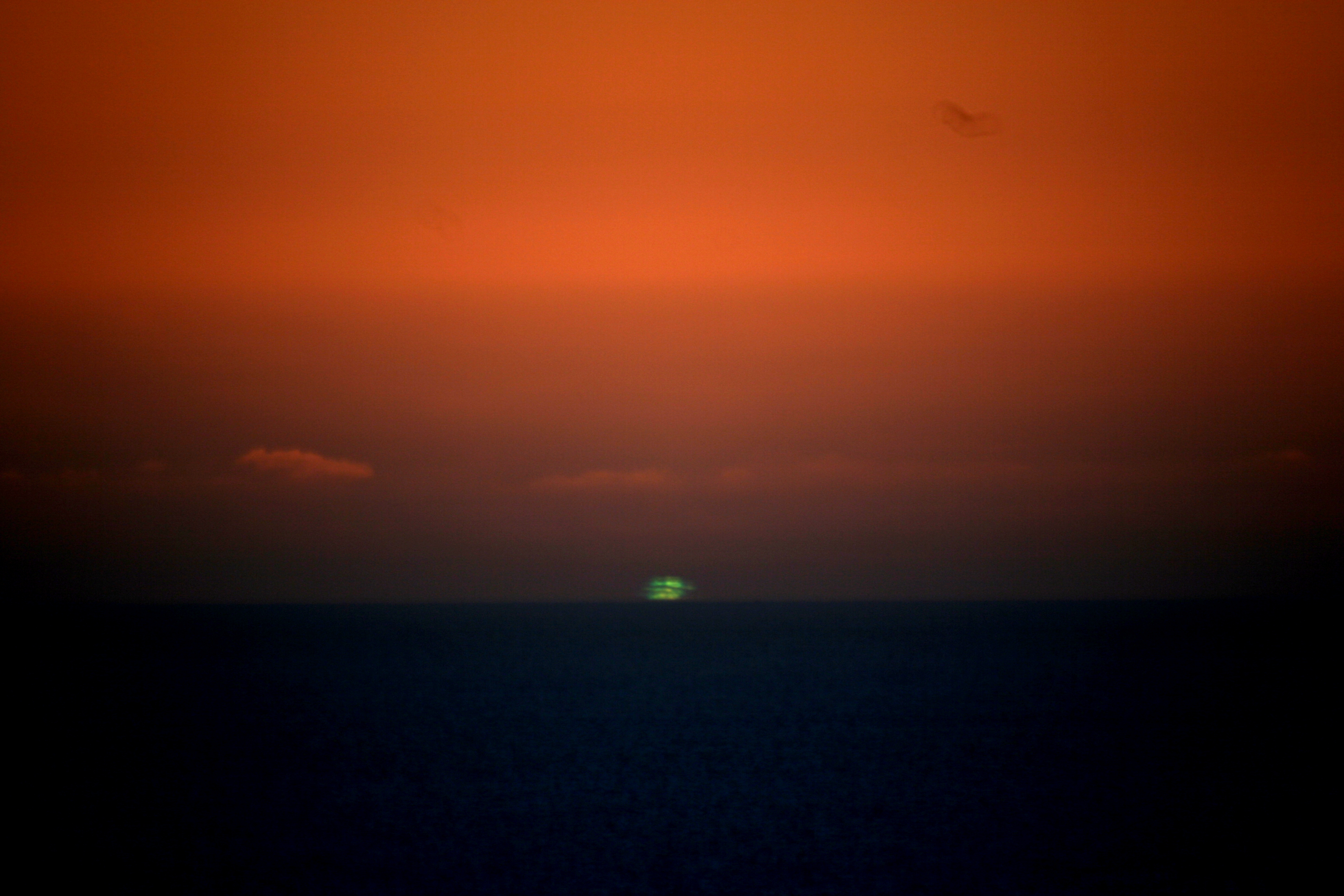 Green Flash in San Francisco. That green flash was huge. As a matter of fact it is 3 green flashes that just happened to be together that is very unusual.